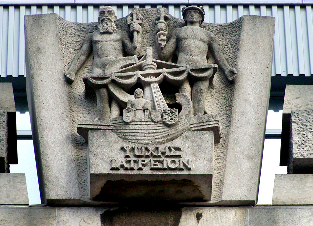 Ornament on top of the University Library Amsterdam, at the Singel.